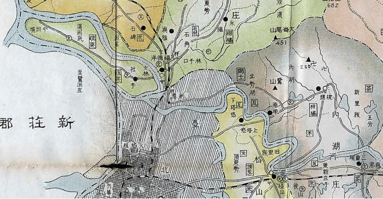 中文（台灣）: 摘錄自 七星郡役所 - 七星郡勢一覽 昭和七年刊行 Map of Shichisei District, Taihoku in 1932